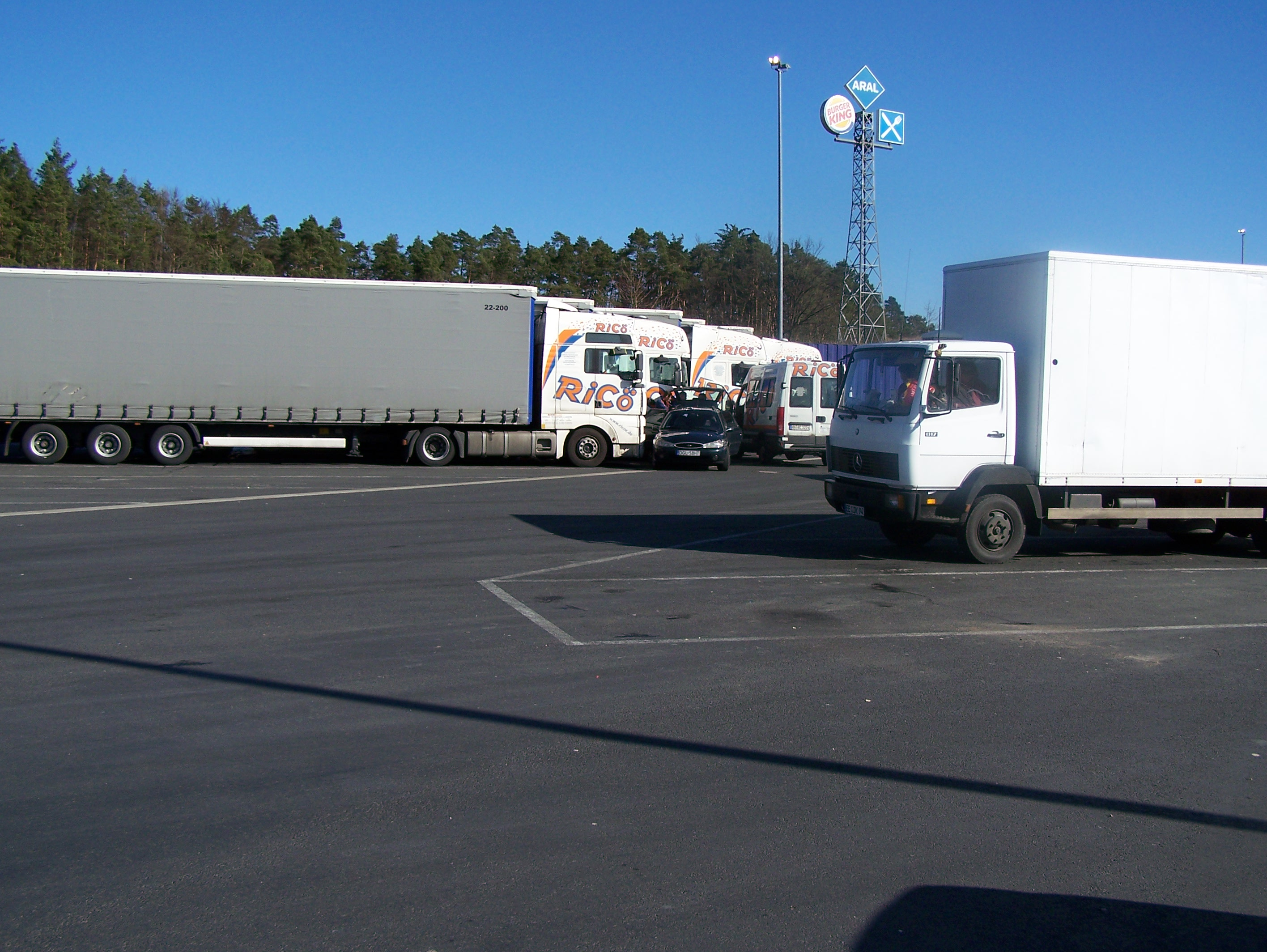 Parking lot of Autohof Schnaittach, Germany.